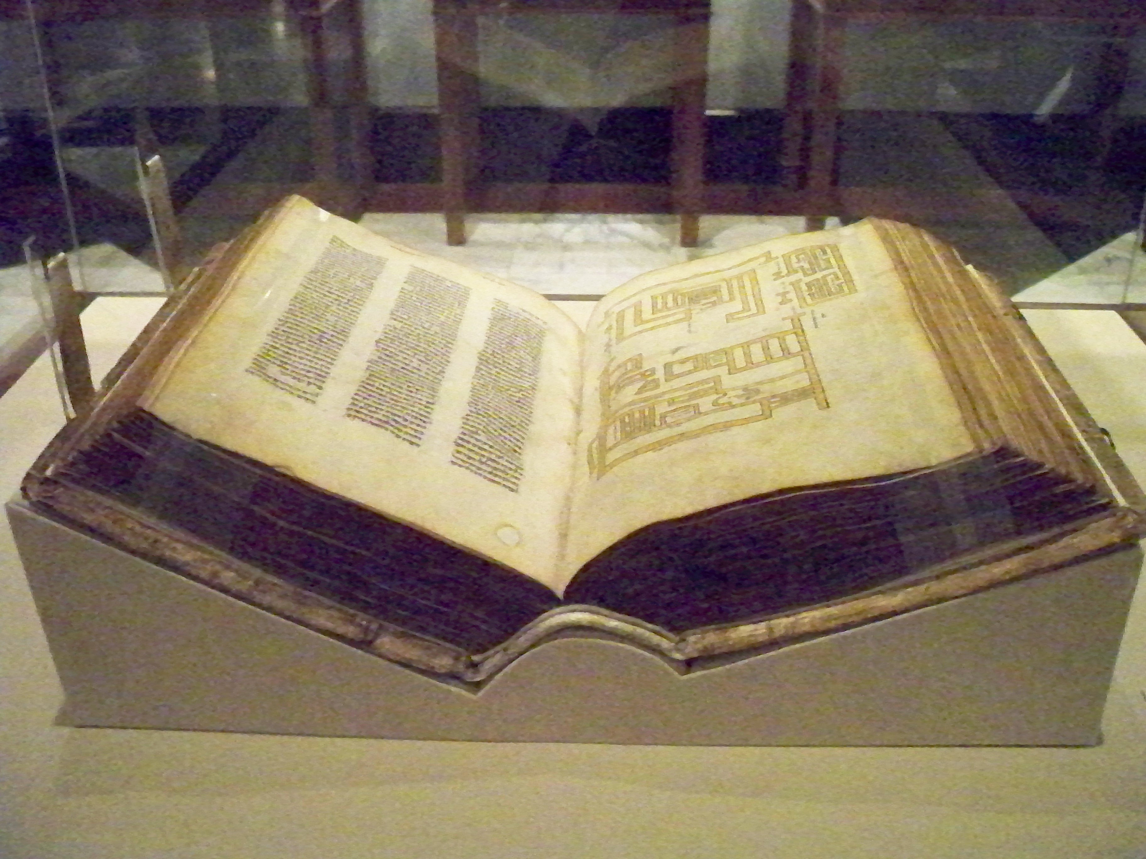 The Mishneh Torah, north French or German, from 1200-1400, at the Metropolitan Museum of Art.